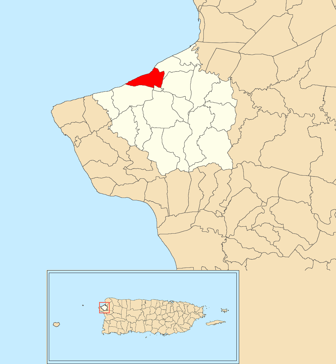 Guaniquilla, Aguada, Puerto Rico locator map